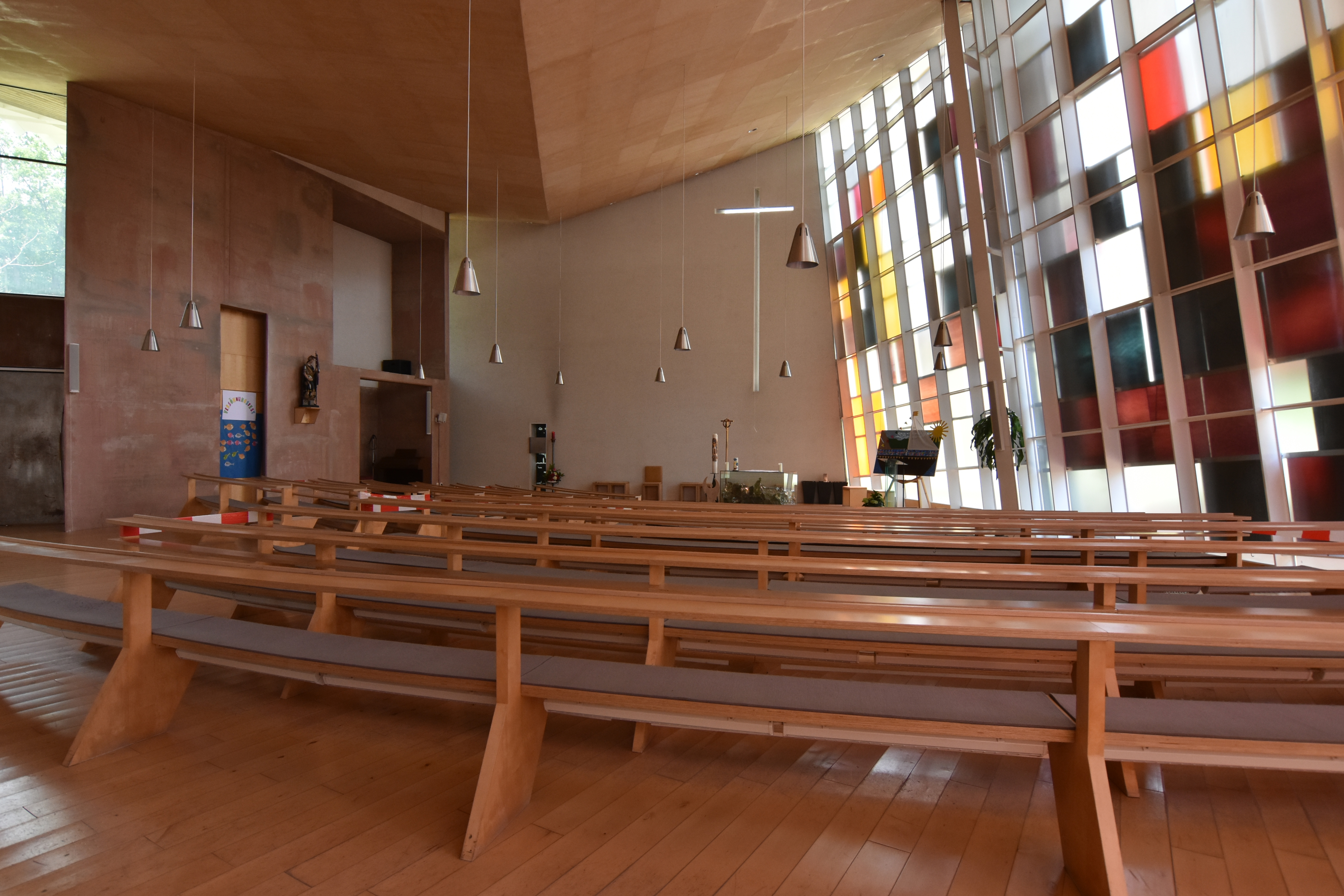 Church St. Florian, Aigen im Ennstal Interior